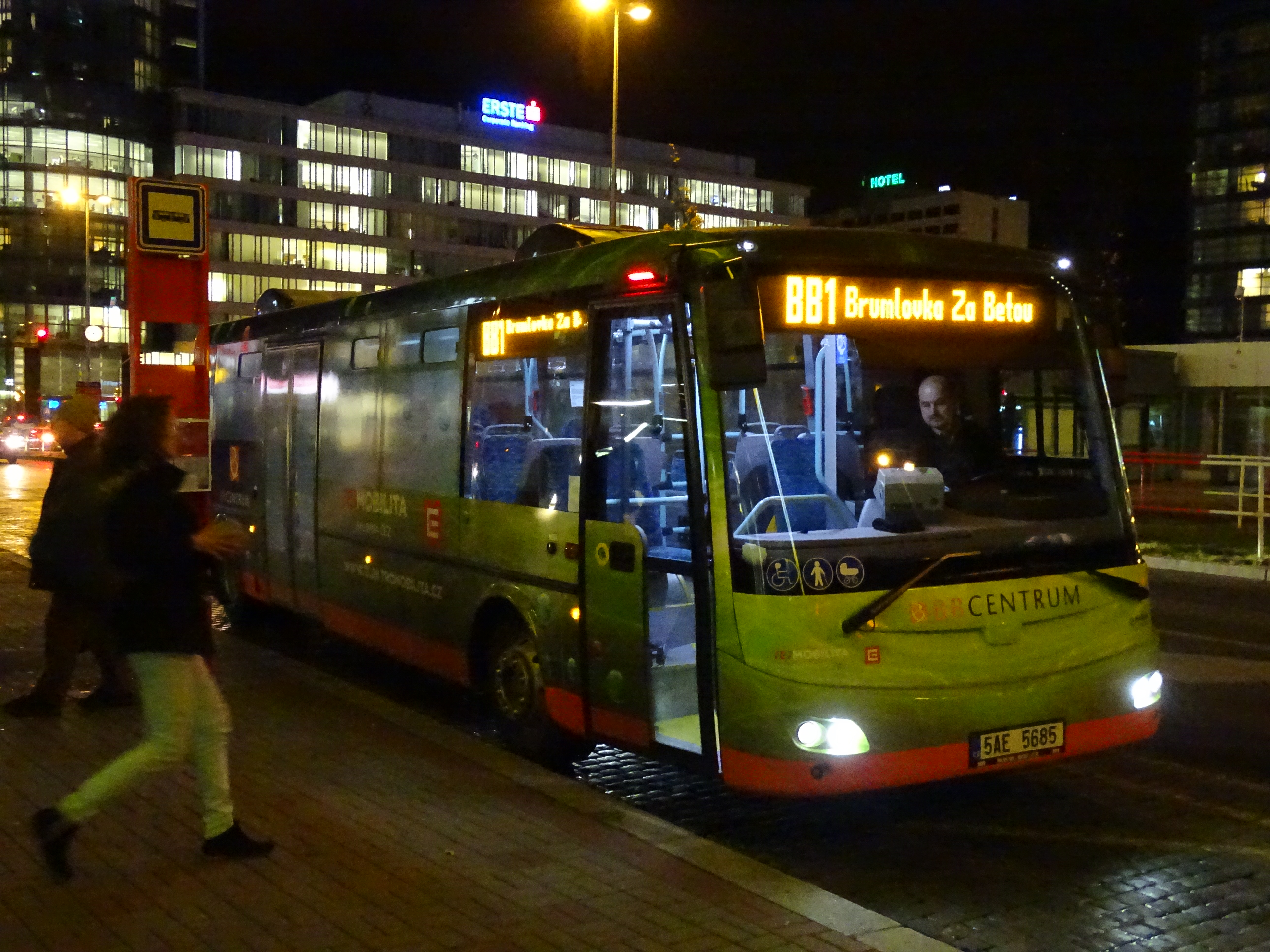 Prague-Krč, Czechia, Olbrachtova street, SOR EBN 9,5, line BB1.